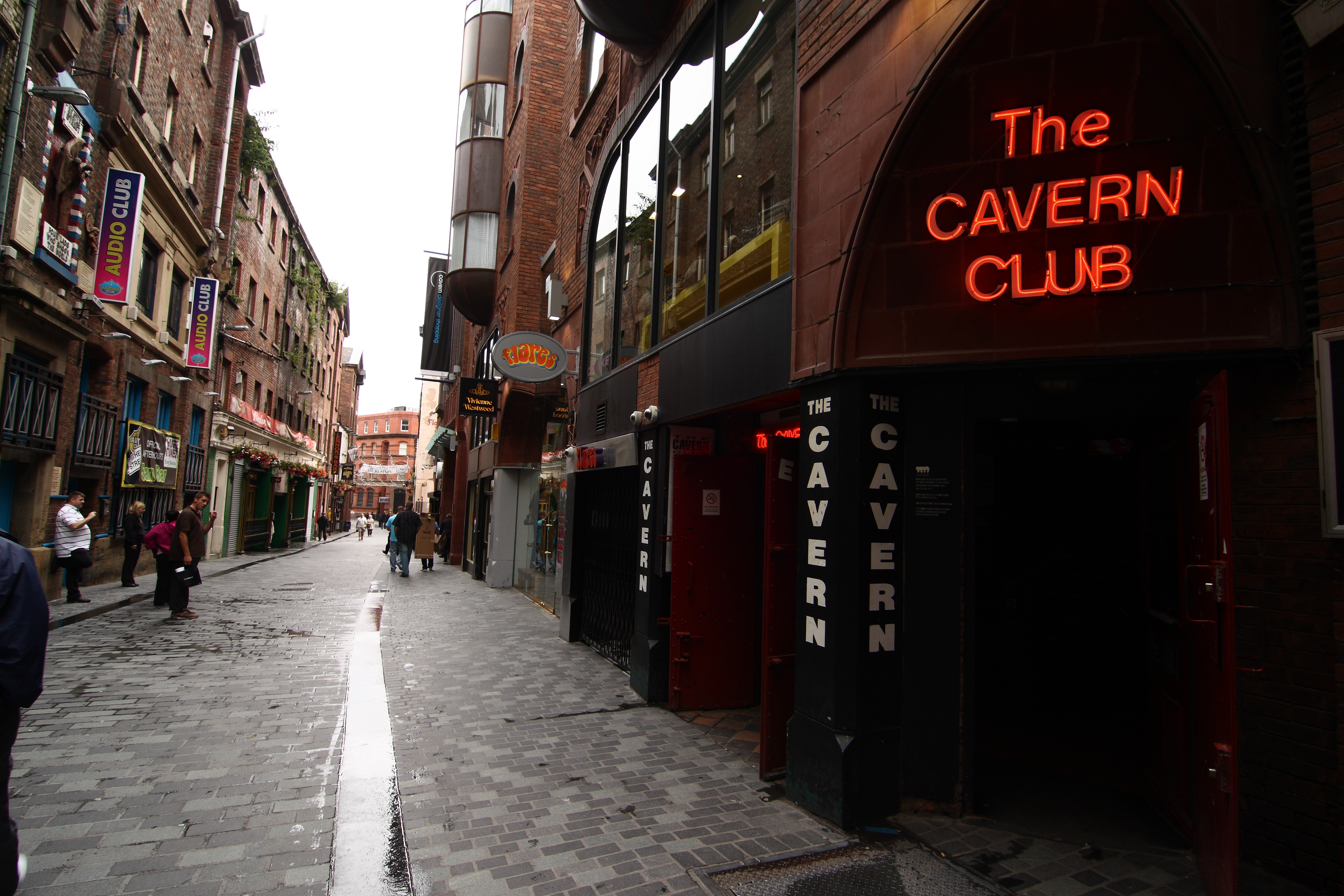 Cavern Club (as made famous by the Beatles), Mathew Street, Liverpool, England, UK